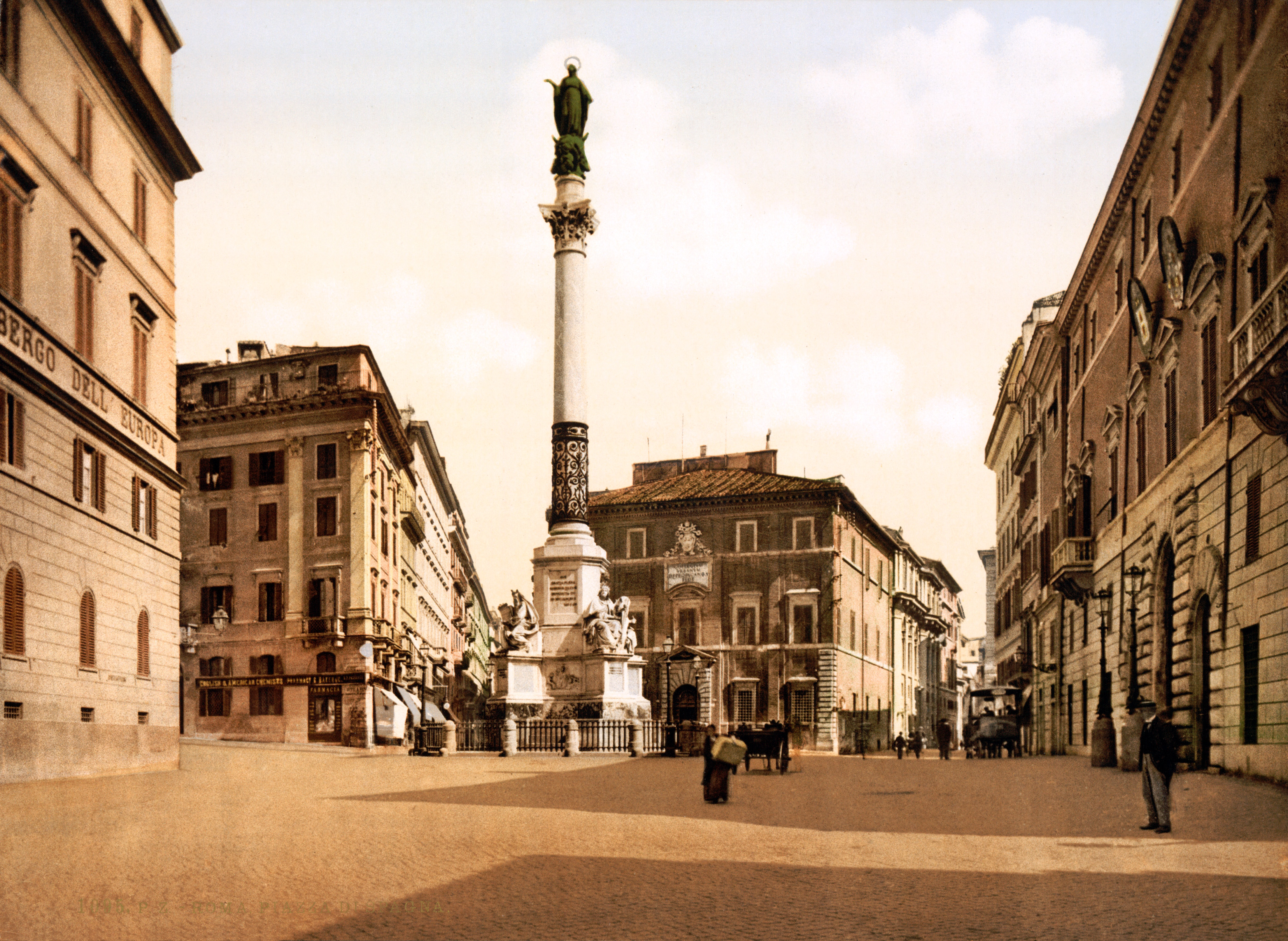 Photochrom print by Photoglob Zürich, between 1890 and 1900. From the Photochrom Prints Collection at the Library of Congress More photochroms from Italy | More photochrom prints [PD] This picture is in the public domain.